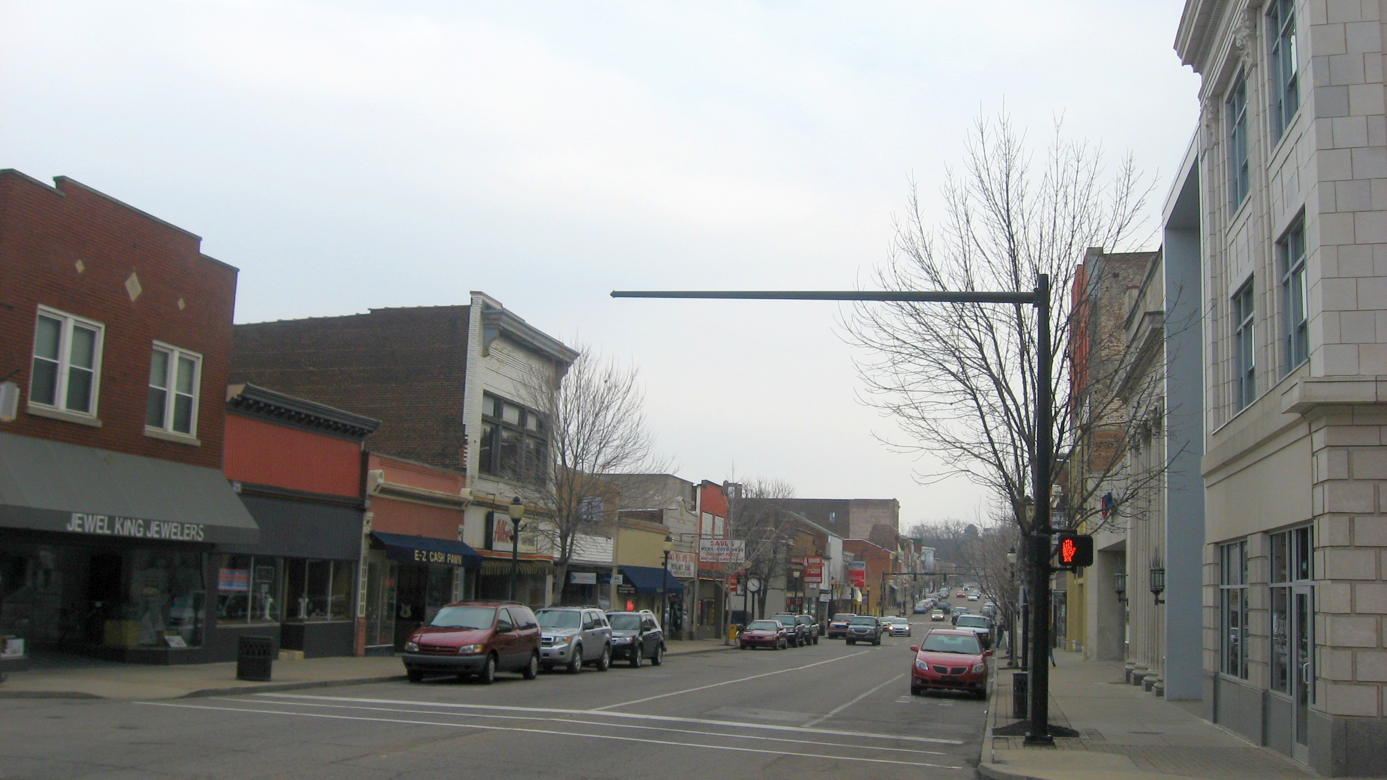 Buildings on the eastern side of Monmouth Street (U.S. Route 27) south of the Eighth Street junction in Newport, Kentucky, United States. This block is part of the Monmouth Street Historic District, a historic district that is listed on the National Register of Historic Places.